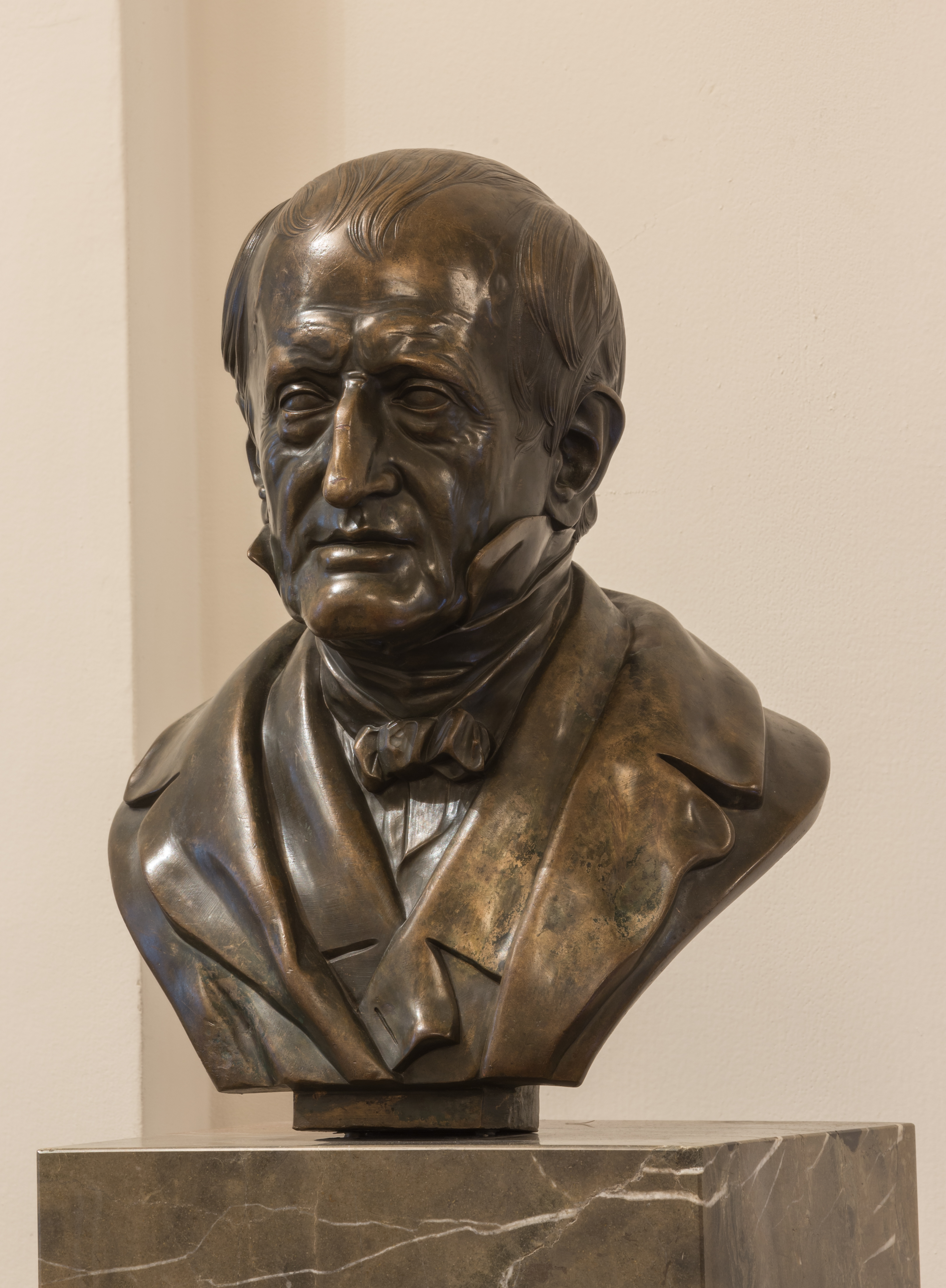 Joseph von Hammer-Purgstall - Bust in the Austrian Academy of Science, Vienna. First president of the Academy (1847-1849) Bust from the second quarter of the 19. century